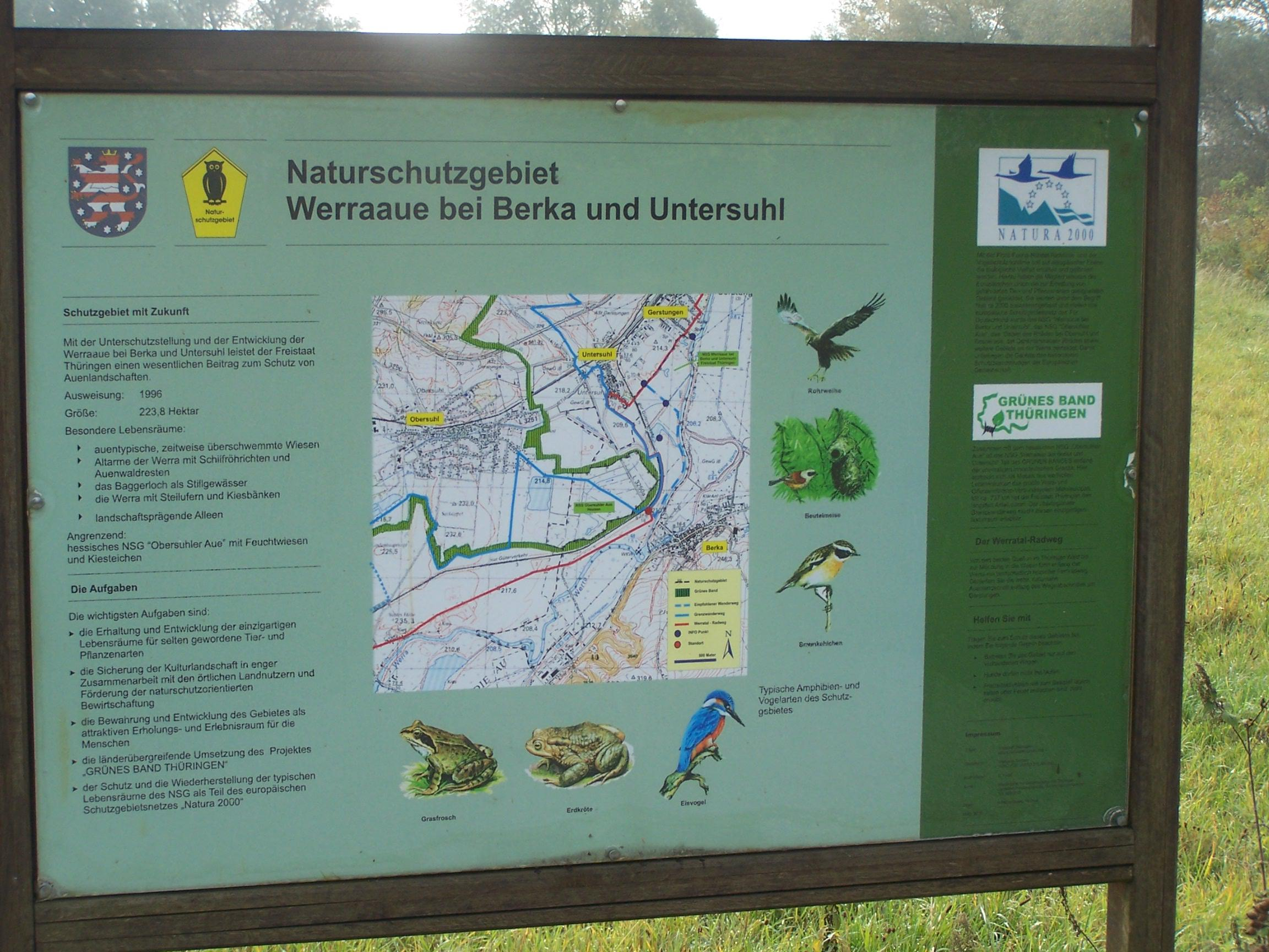 A information point at the Werra river near Untersuhl.